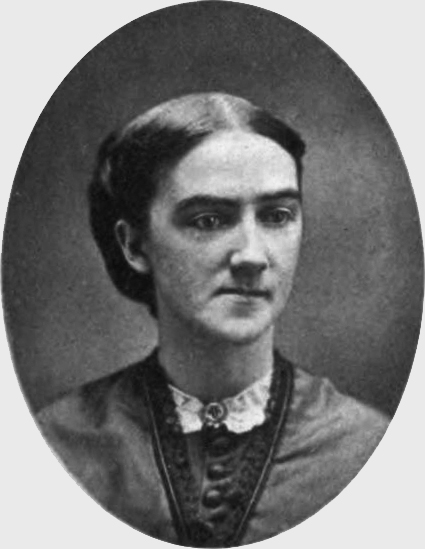 Ellen Swallow Richards - Vassar Class Picture - 1870